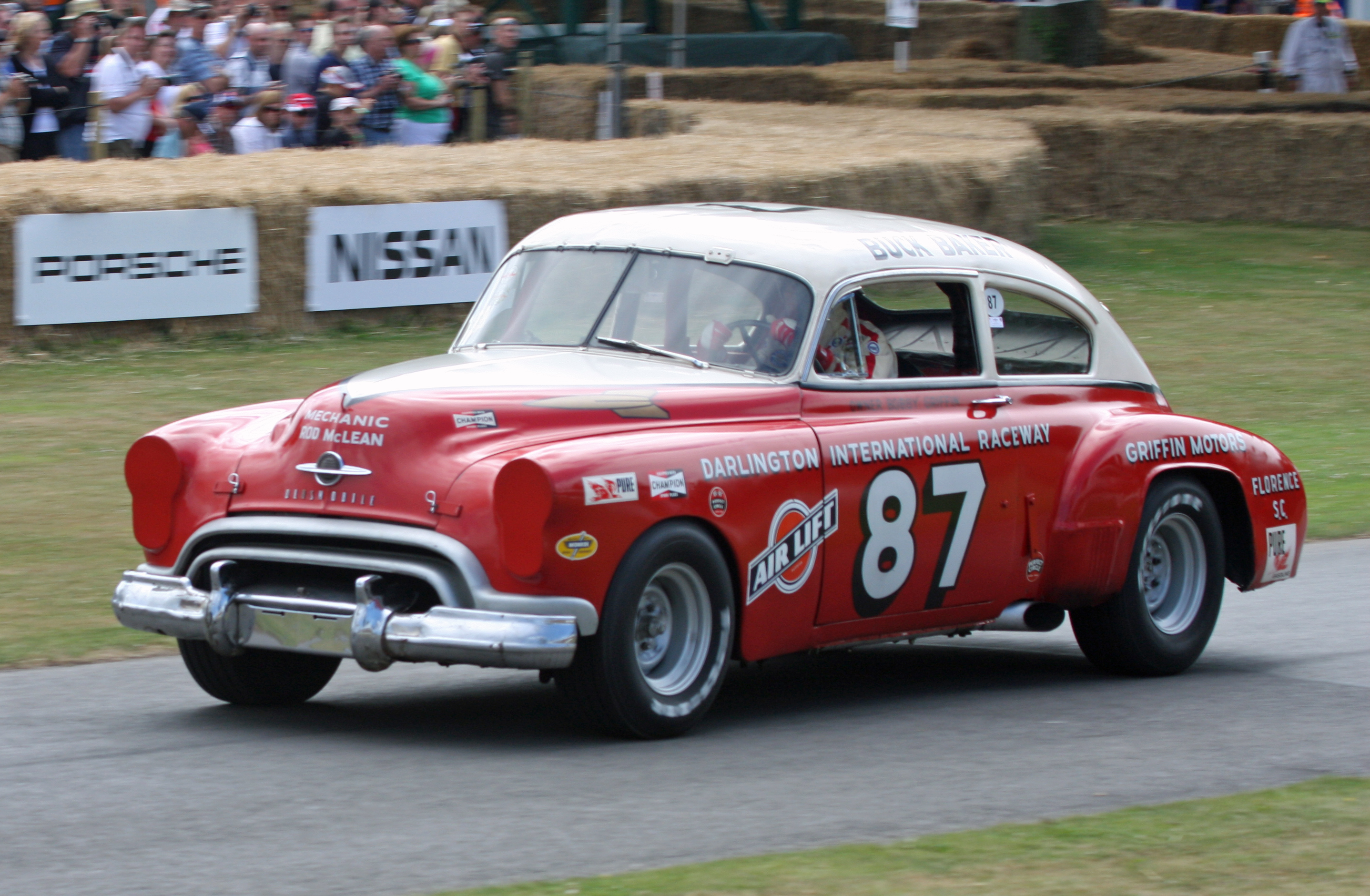 1949 Oldsmobile Rocket from NASCAR driver Buck Baker at the 2009 Goodwood Festival of Speed